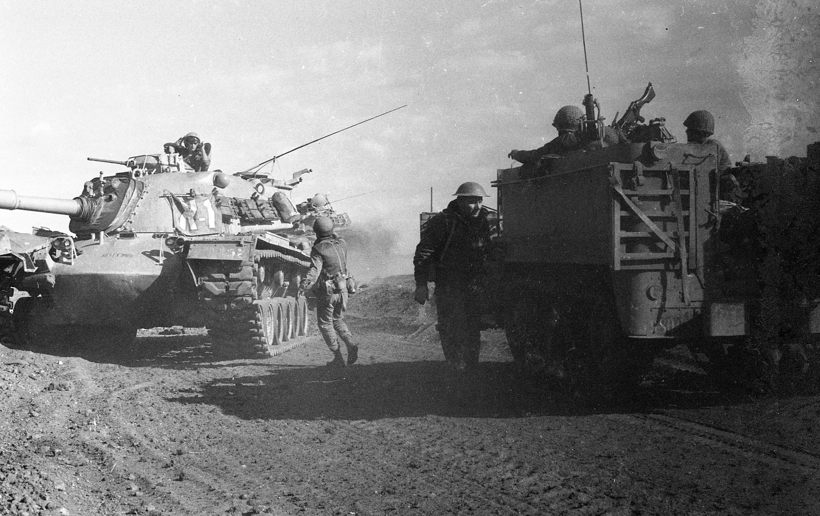 The Egyptians shelled the IDF positions on the Suez Canal causing some causalities among the IDF soldiers.